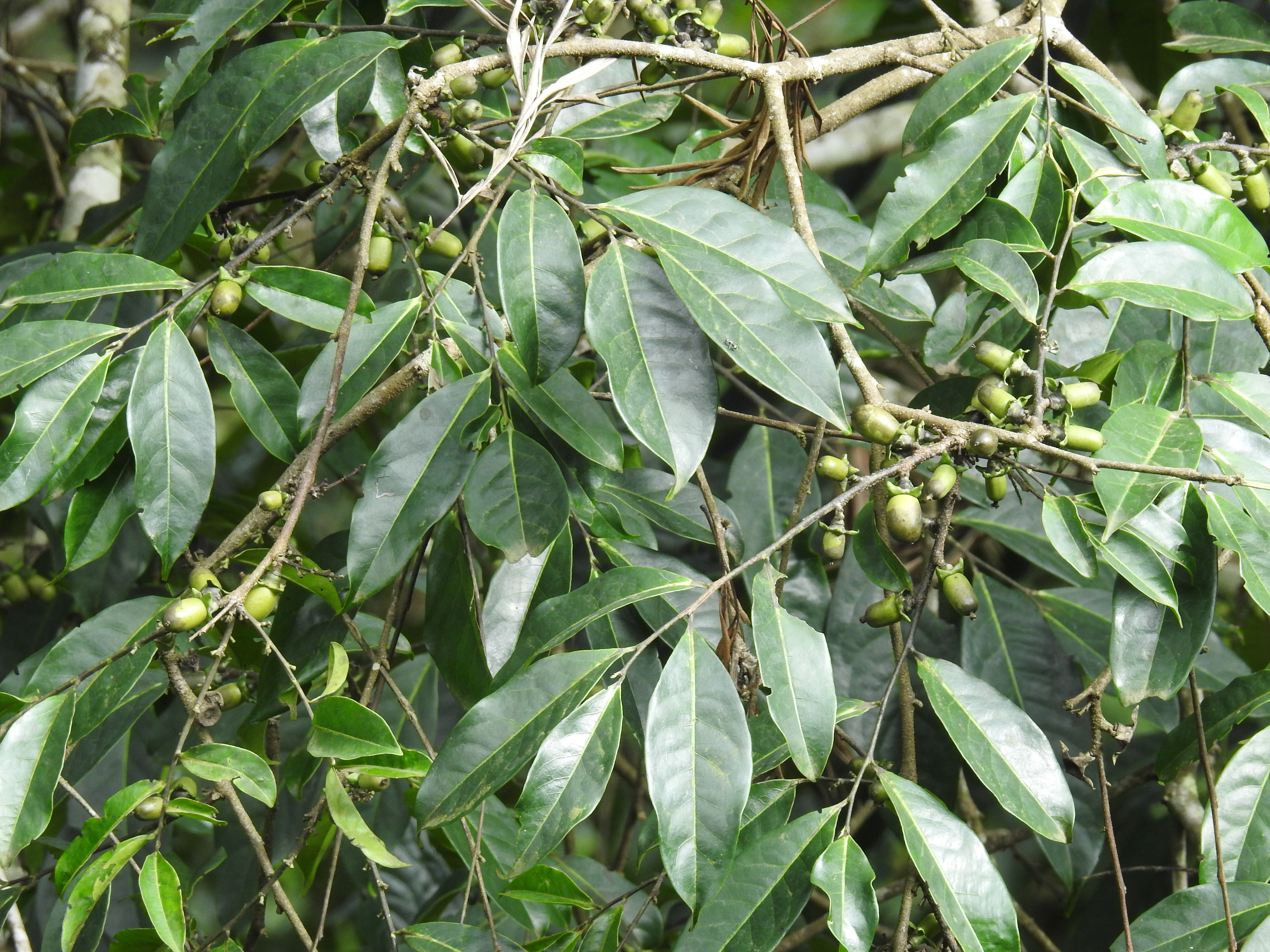 Fruits and leaves of Diospyros sylvatica tree